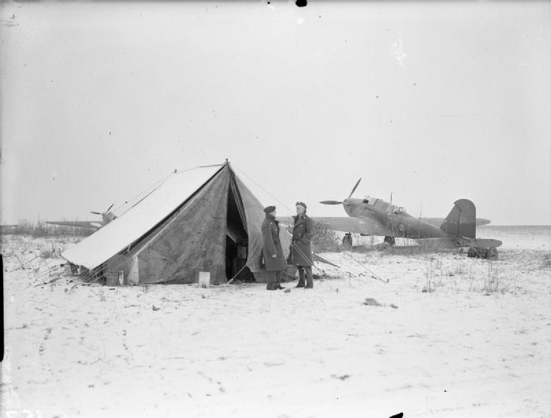 Royal Air Force- France, 1939-1940 A crew tent and Fairey Battles of No. 12 Squadron RAF on a snow covered airfield at Amifontaine.